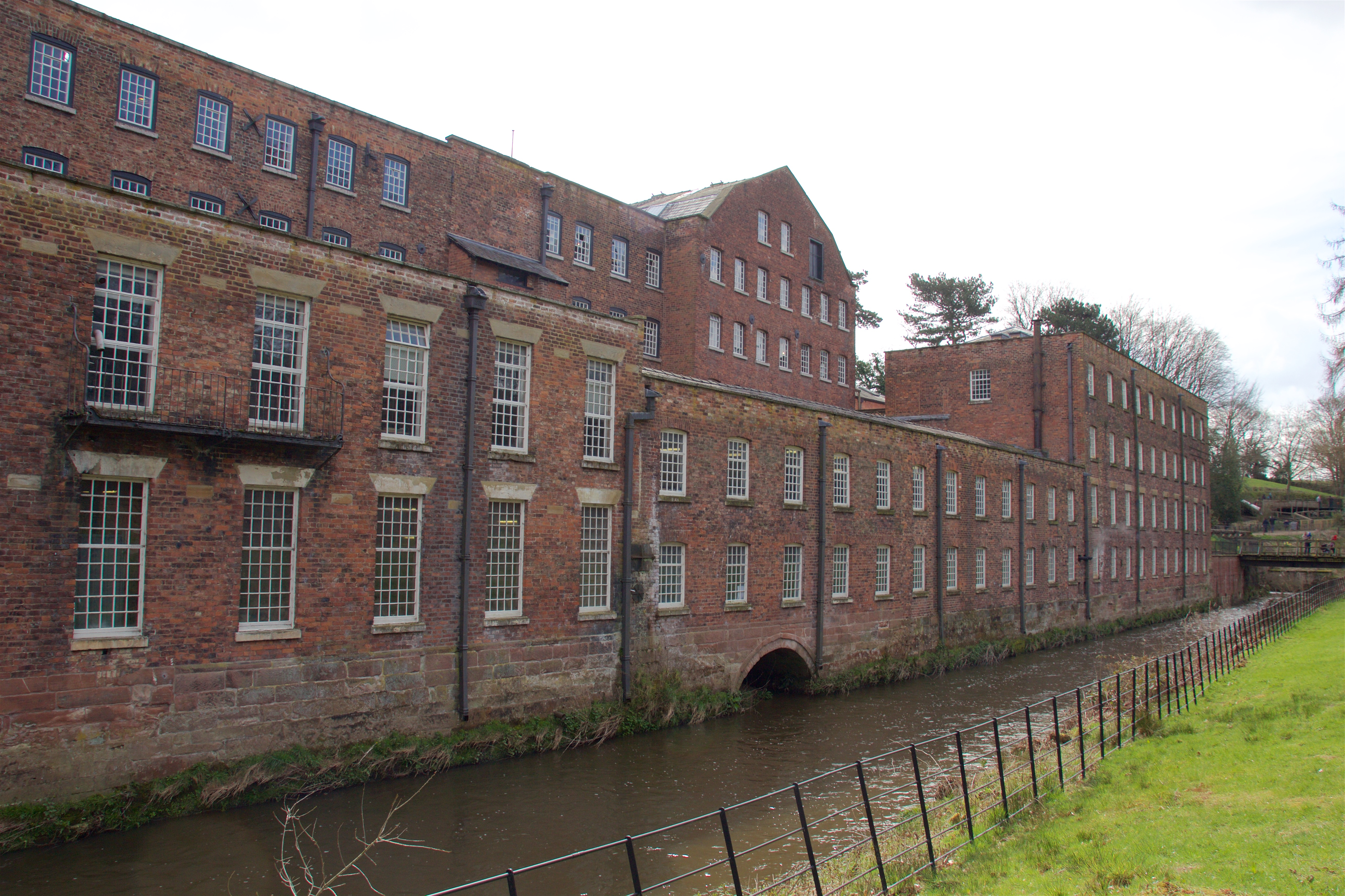 Quarry Bank Mill, UK, in April 2016